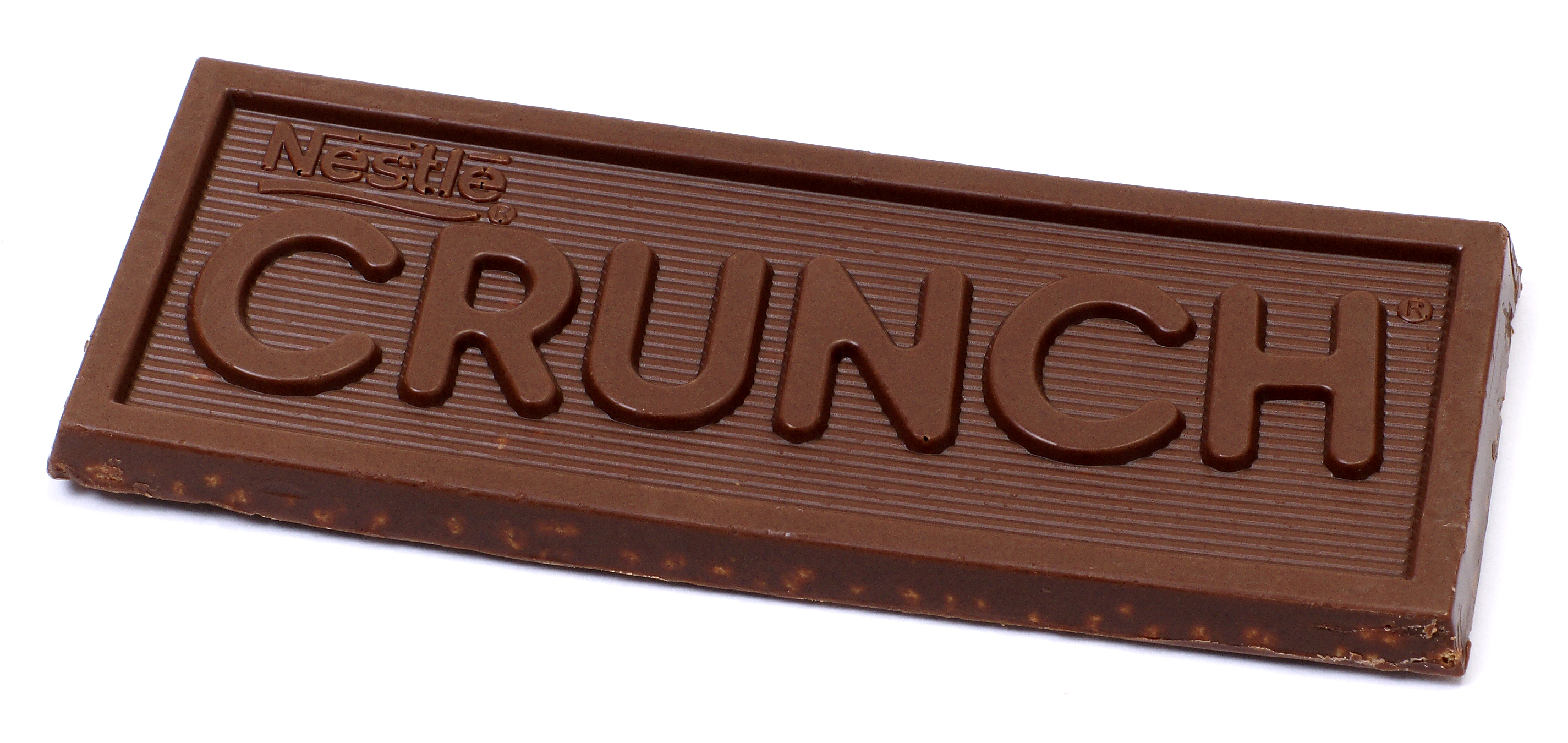 Nestle Crunch bar whole, showing logo of product in the actual chocolate.